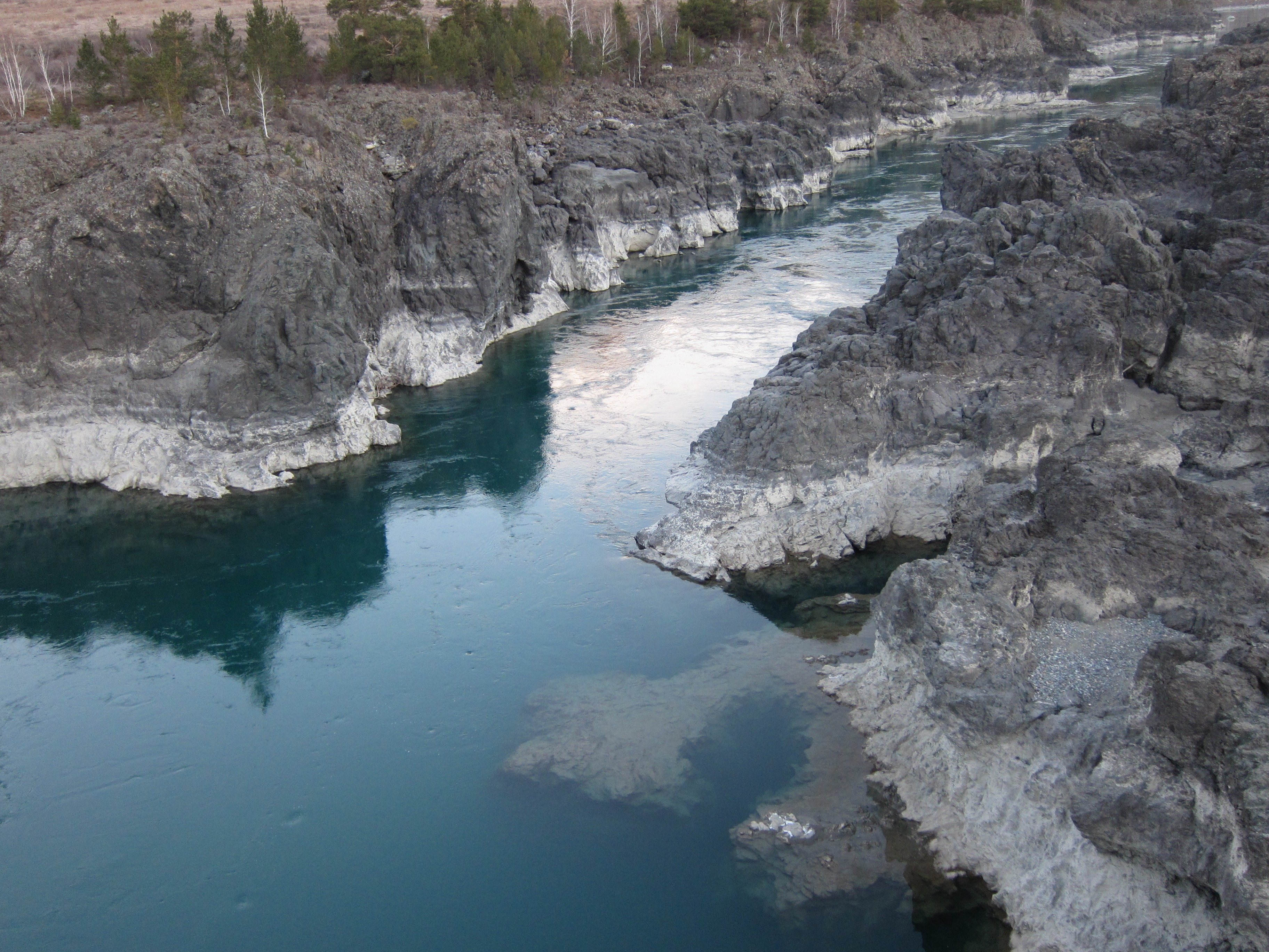 Katun River in November near Oroktoy Bridge